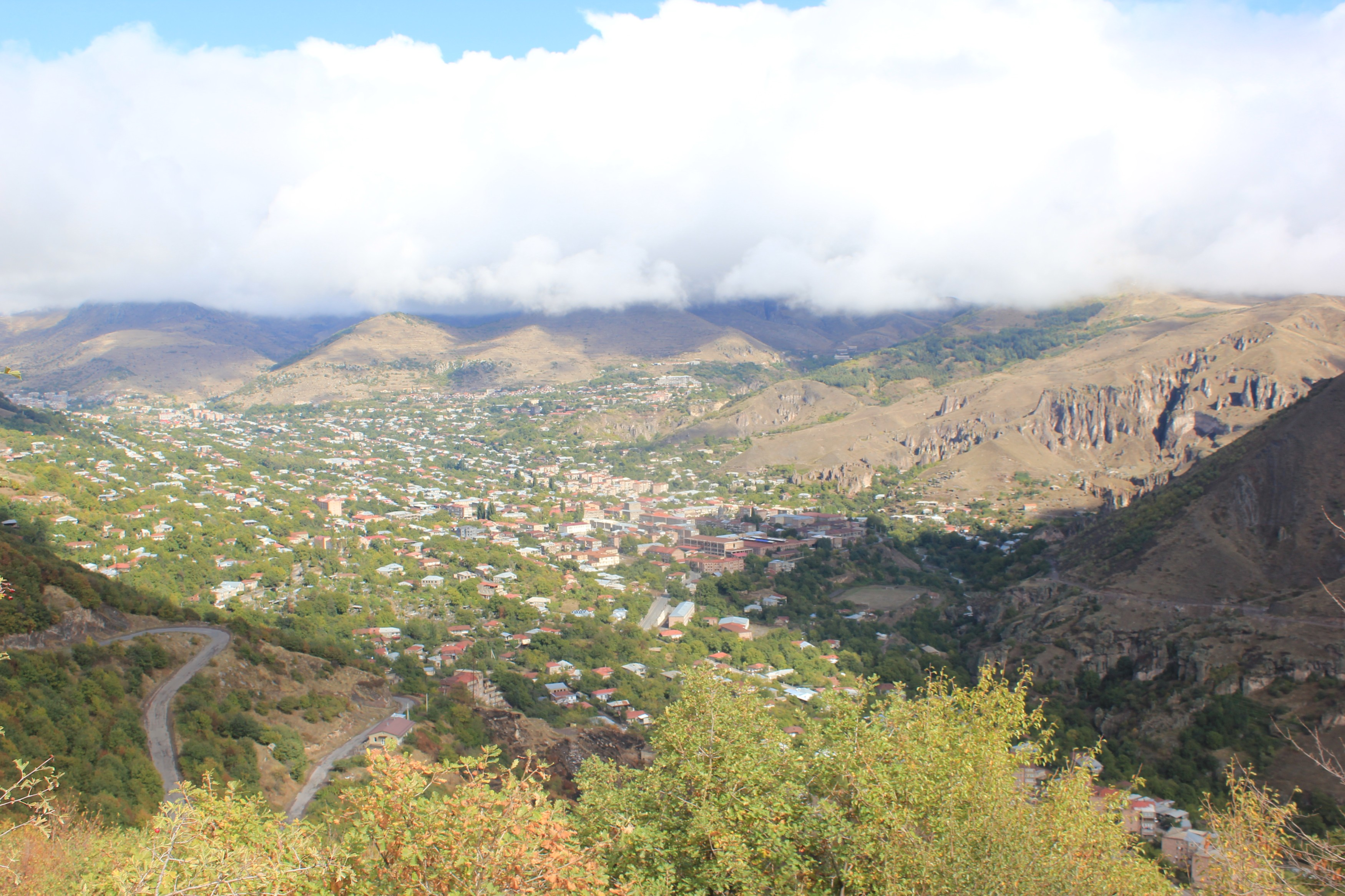 View on Goris, Armenia.